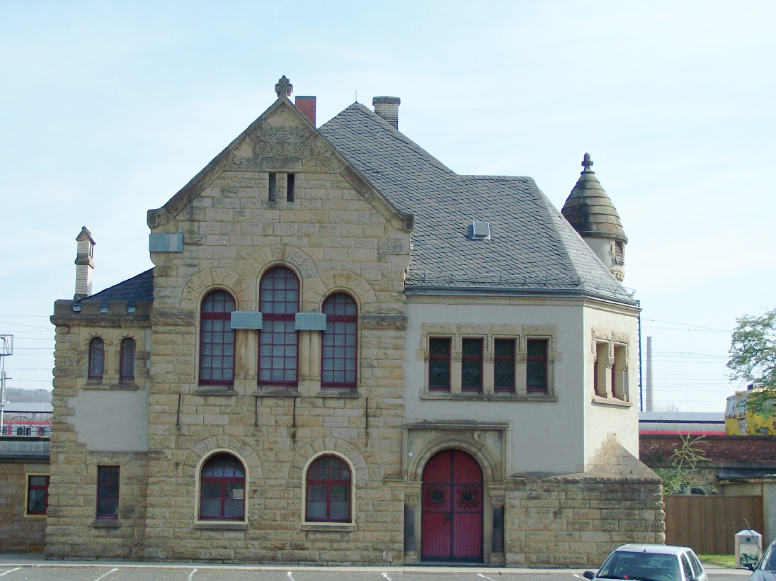 The separatet station for the high society - the so called Fürstenbahnhof.